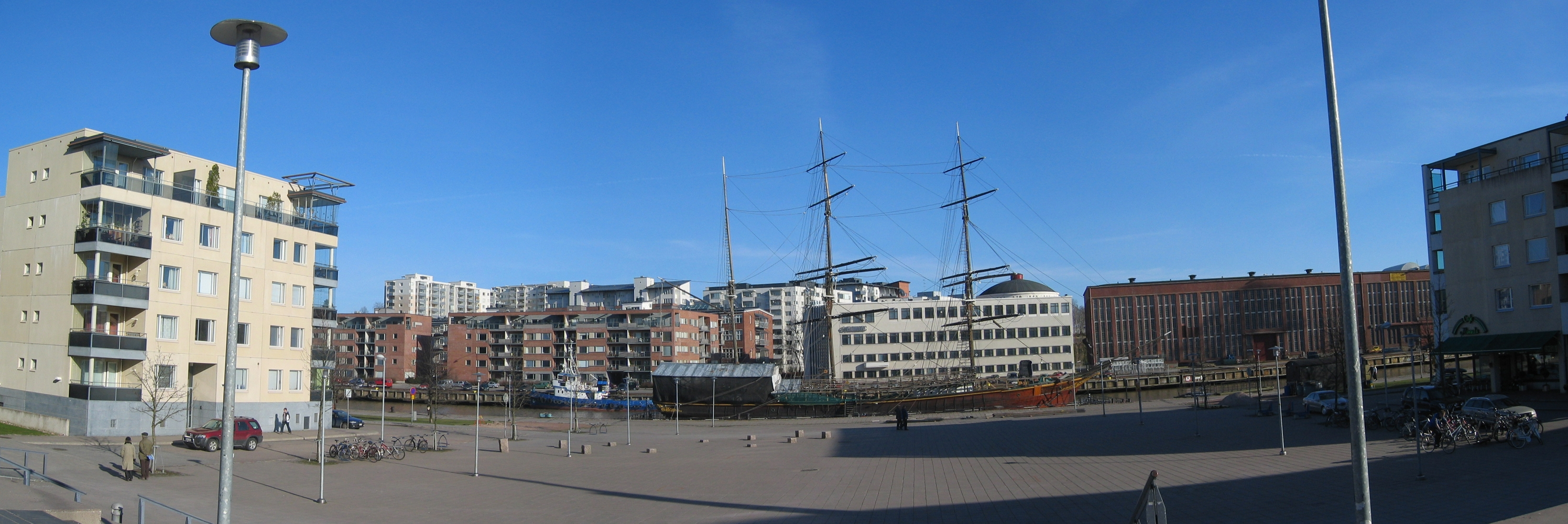 Varvintori in Turku, towards V district, Itäranta